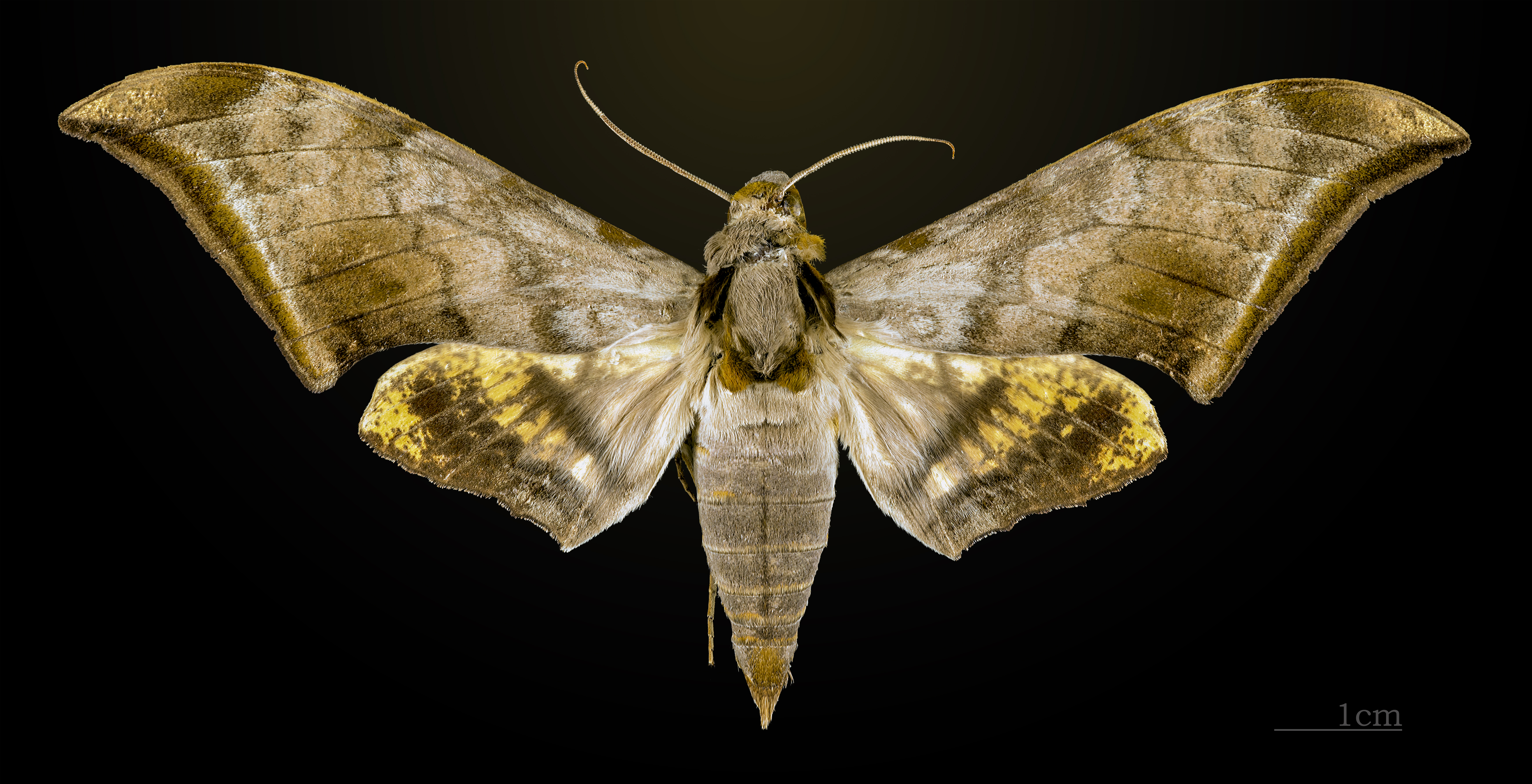 Ambulyx jordani - Dorsal side Collection of the Mathematician Laurent Schwartz